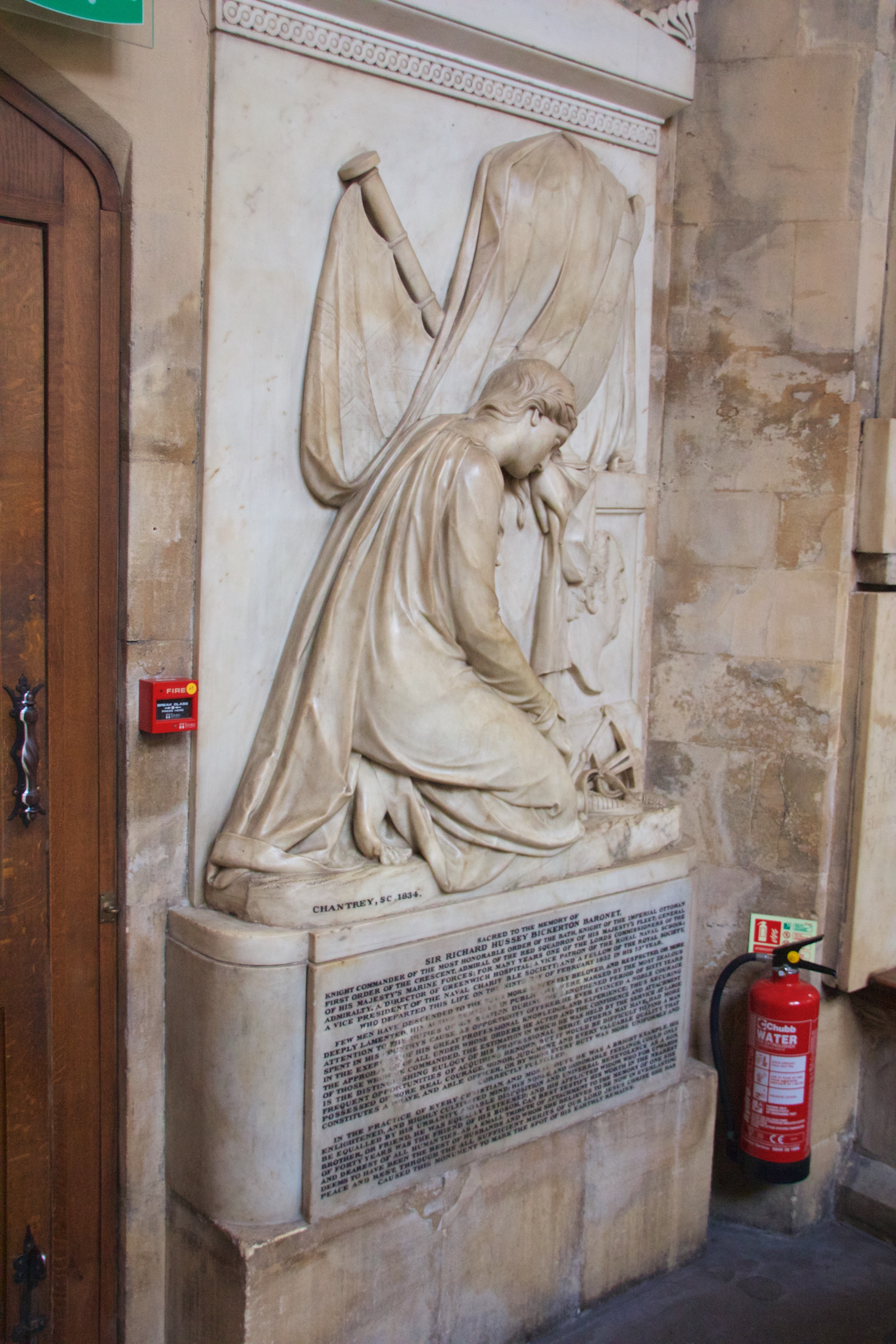 Memorial to Sir Richard Hussey Bickerton Baronet, Bath Abbey, Bath, UK